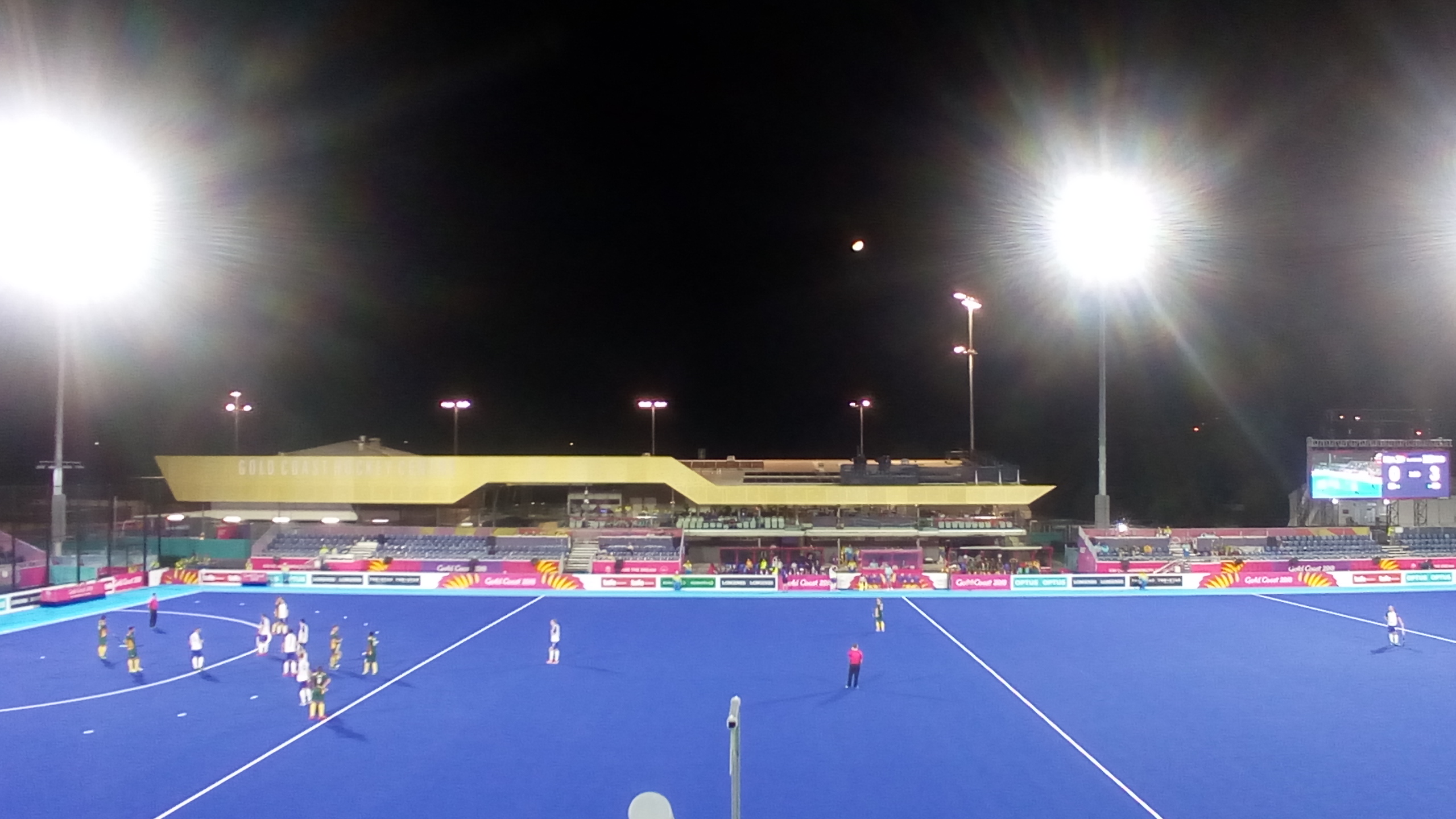 Gold Coast Hockey Centre during the 2018 Commonwealth Games